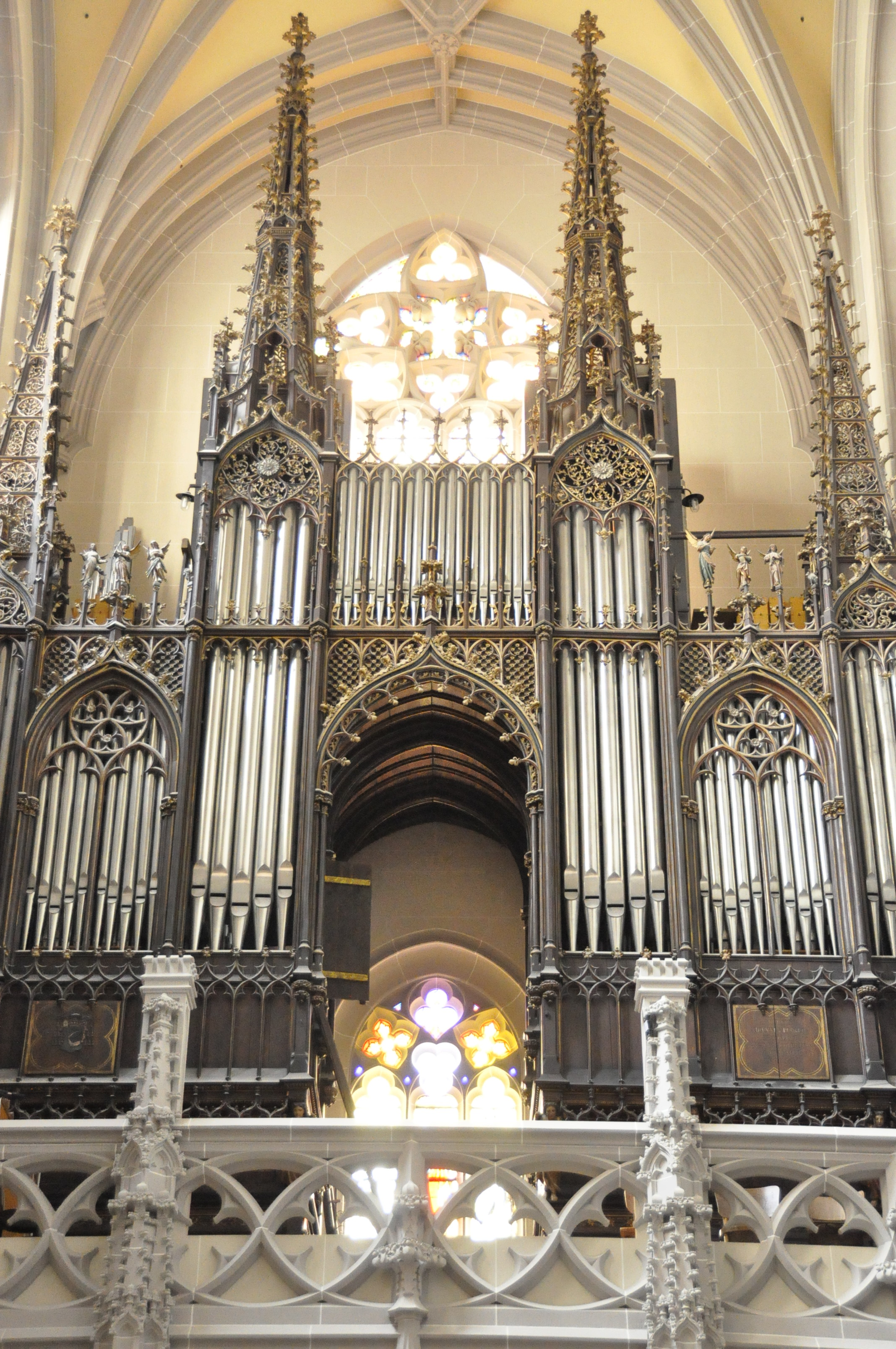 St.Elisabeth Cathedral,Košice,Slovakia